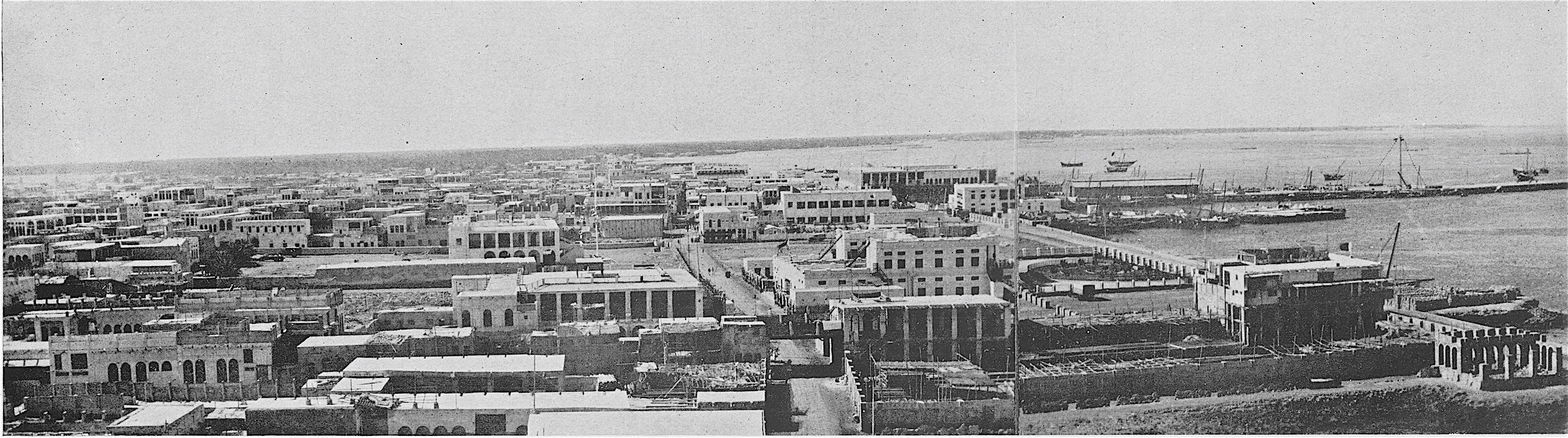 View of Manama, facing west, showing the customs pier and sea road.